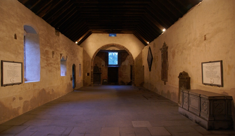 Innerpeffray Chapel, Perth and Kinross, Scotland. Interior, looking west.